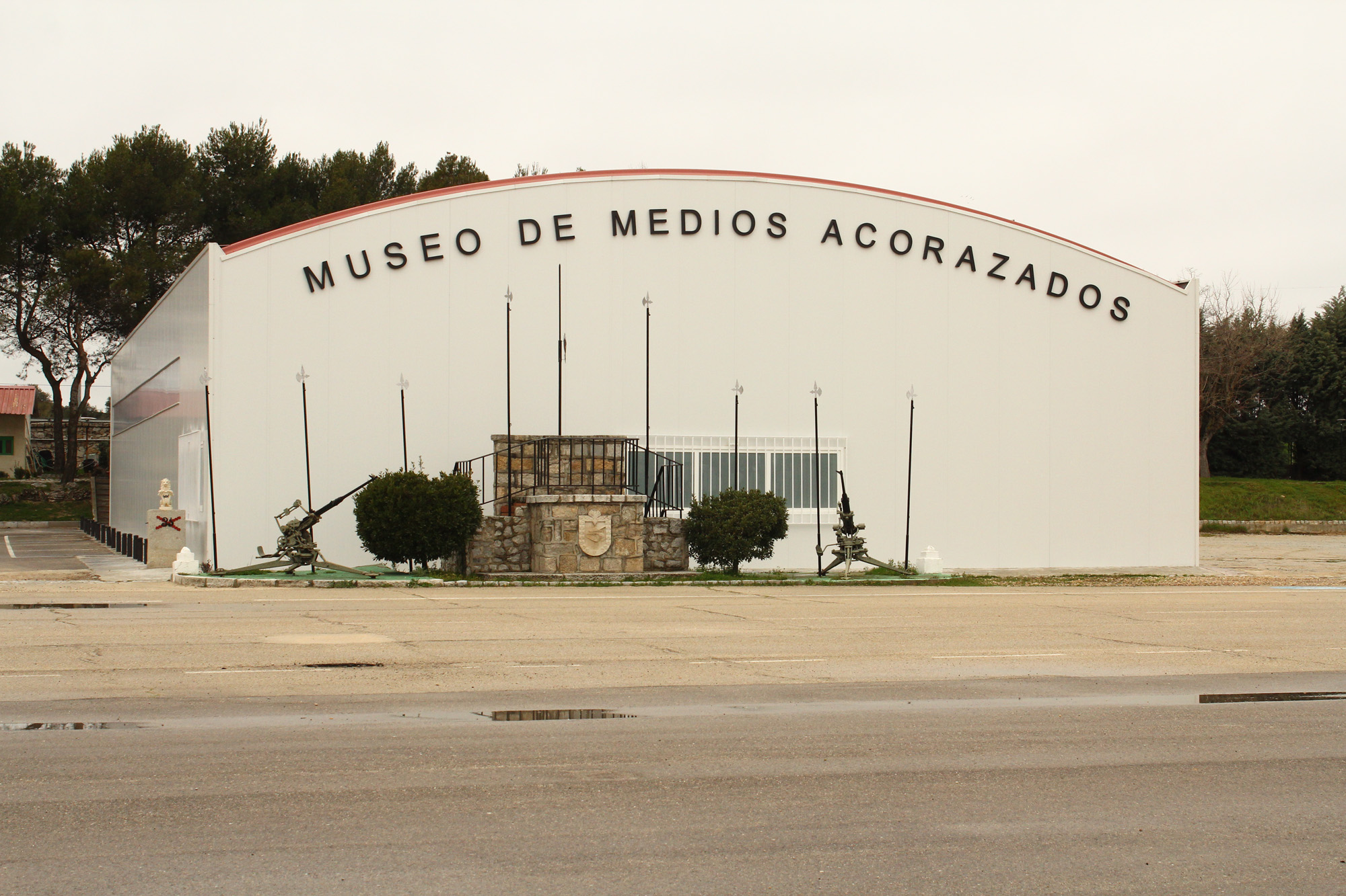 Hangar of the Museum of Armored Units of El Goloso